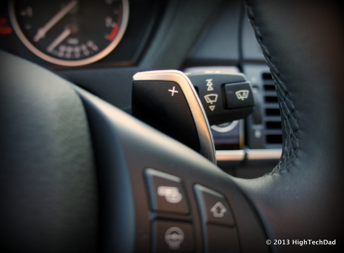 Photos from a 7-day photoshoot of the 2013 BMW X5 xdrive 35i. More information can be found at